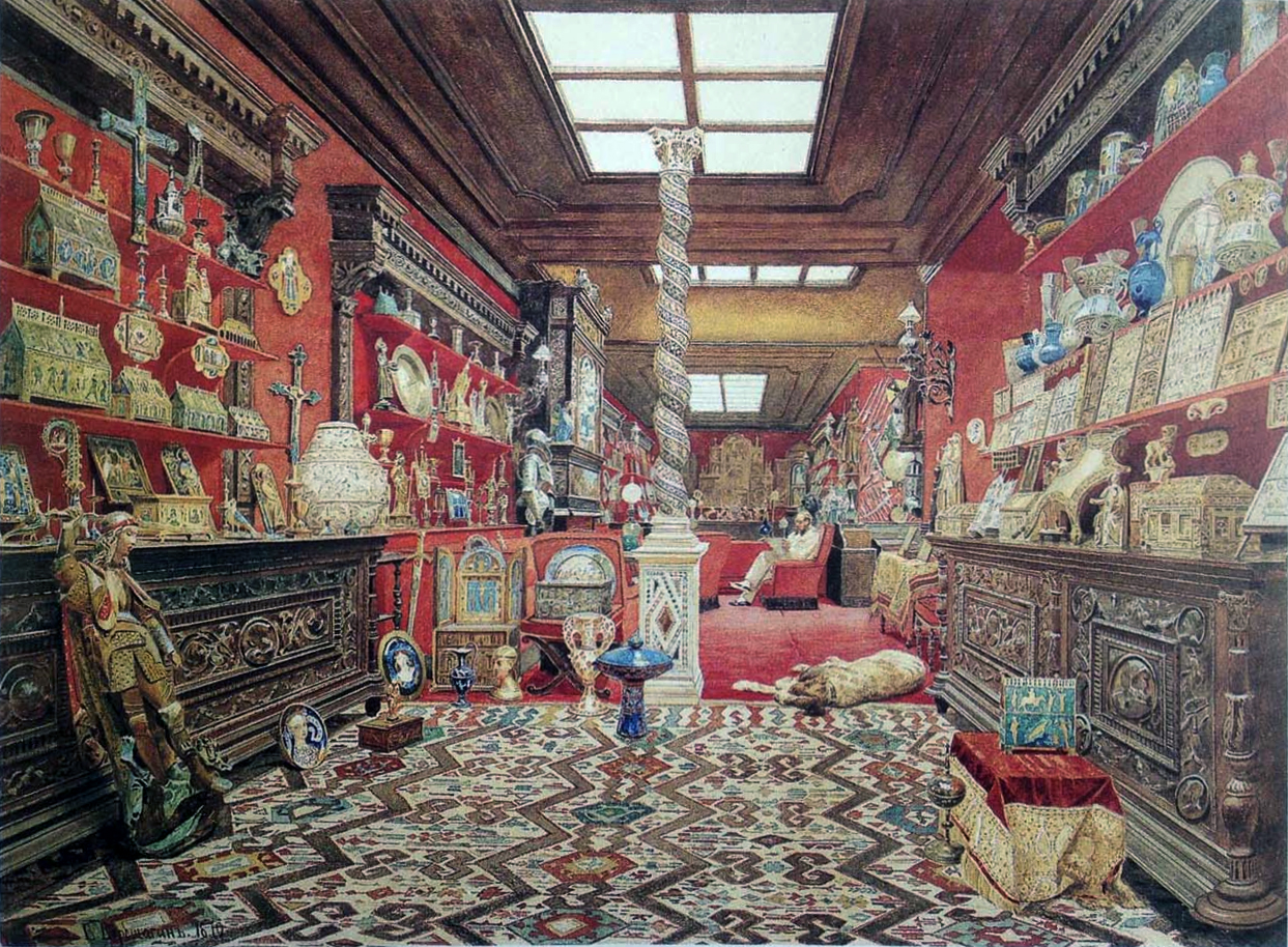 Alexander Basilewsky's collection in Paris